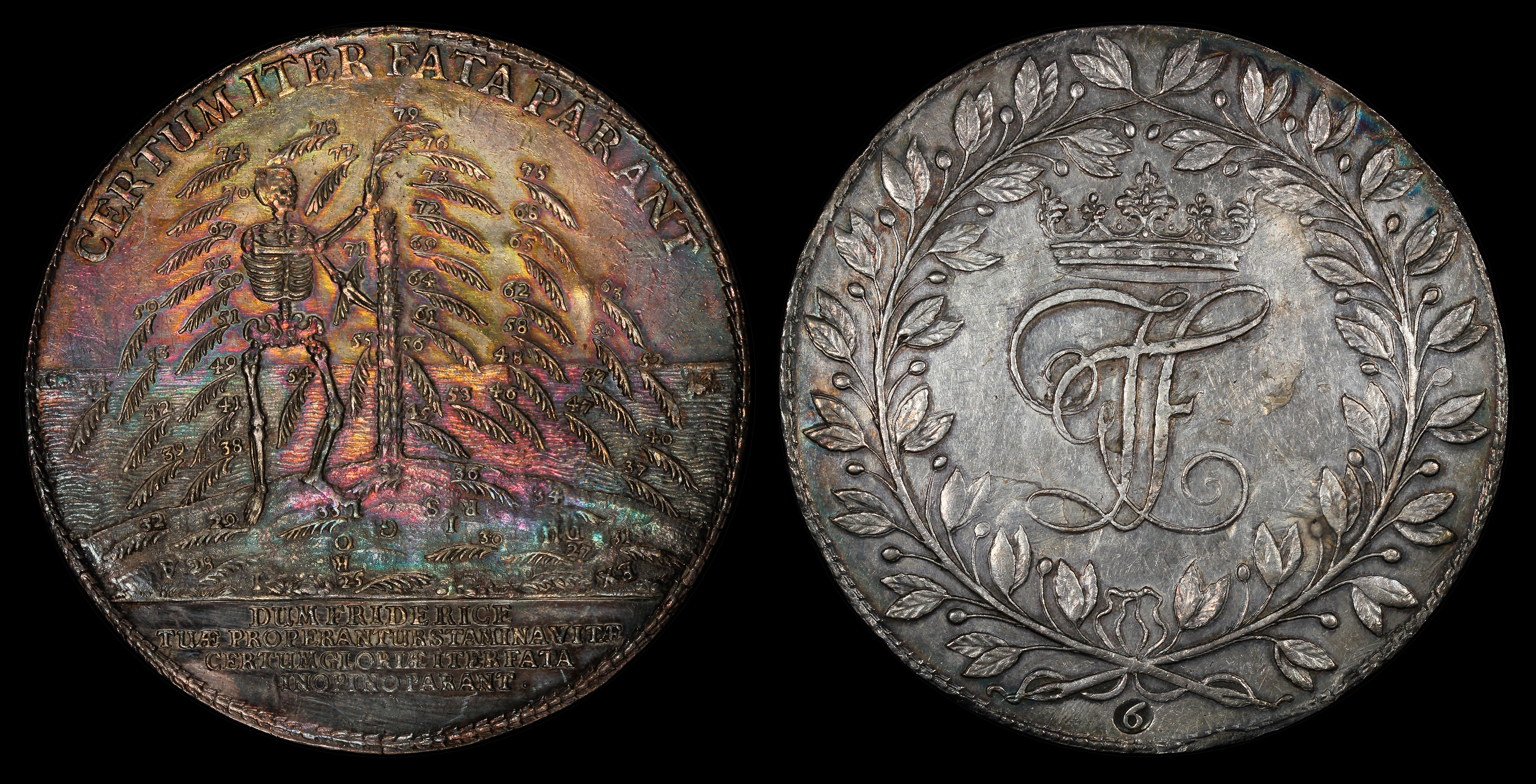 Germany, Principality of Calenberg, John Frederick as Prince 1665–1679. Ag 6 Sterbethaler 1679 without mm. (98mm, 153g), obverse: Crowned italicized monogram JF in laurel wreath, without circumscr., value figure (6) punched in below, reverse: Death as a skeleton, breaking the fronds numbered 25-79 (corresponding to Johann Frederick's lifespan 1625-1679) off a palm tree on an island in the sea, the letters of his motto "EX DU R I S G L O R I A" (Ex Duris Gloria / Out of hardship there grows glory) scattered on the ground and upside down, circumscr. above: CERTUM ITER FATA PARANT (Fate prepares a certain way), in exergue: DUM FRIDERICE / TUAE PROPERANTUR STAMINA VITAE / CERTUM GLORIAE ITER FATA / INOPINO PARANT (While your thread of life is fleeting, Frederick, fate unexpectedly prepares the certain way of glory). Welter 1692.